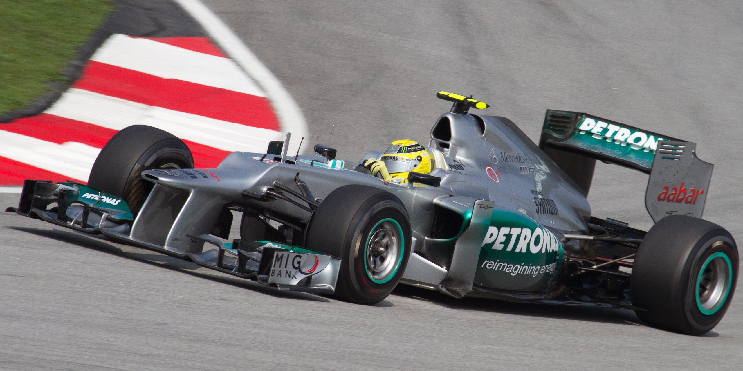 Formula One 2012 Rd.2 Malaysian GP: Nico Rosberg (Mercedes) during the qualify session on Saturday.